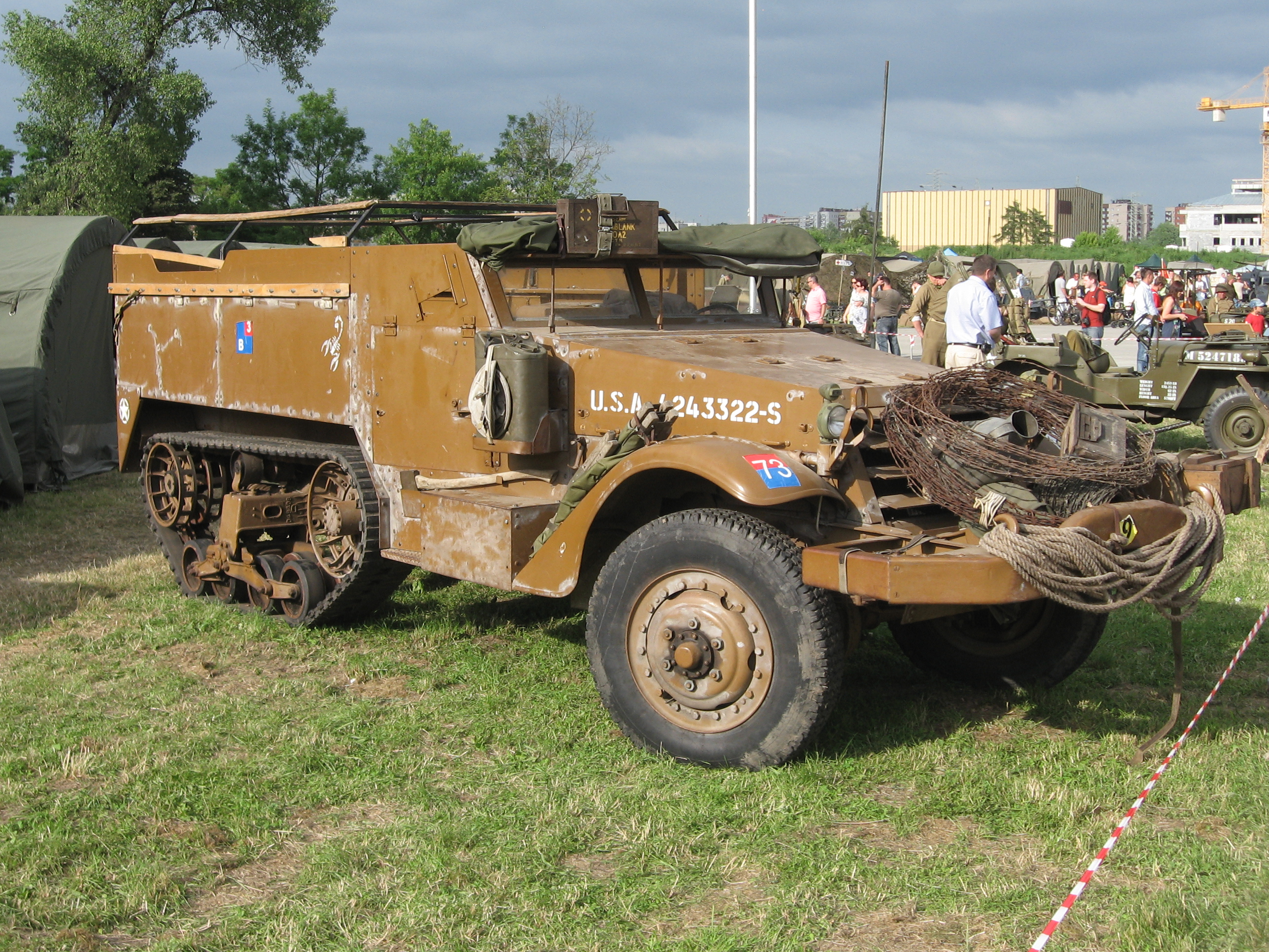 M3 halftruck during the VII Aircraft Picnic in Kraków.